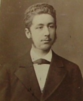 Jerzy Hutten-Czapski (1861-1930), marshal of nobility of Minsk region (1918)